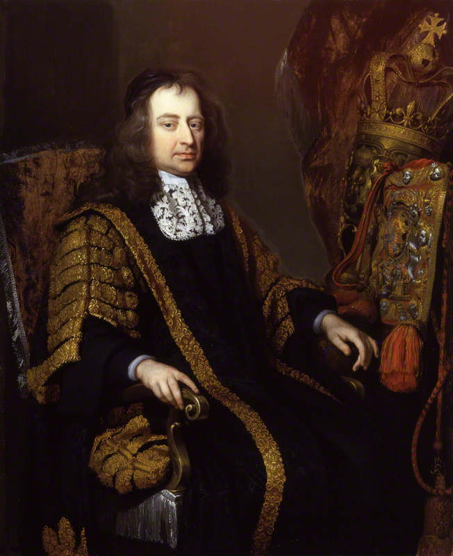 Francis North, 1st Baron GuilfordLow resolution version with color.